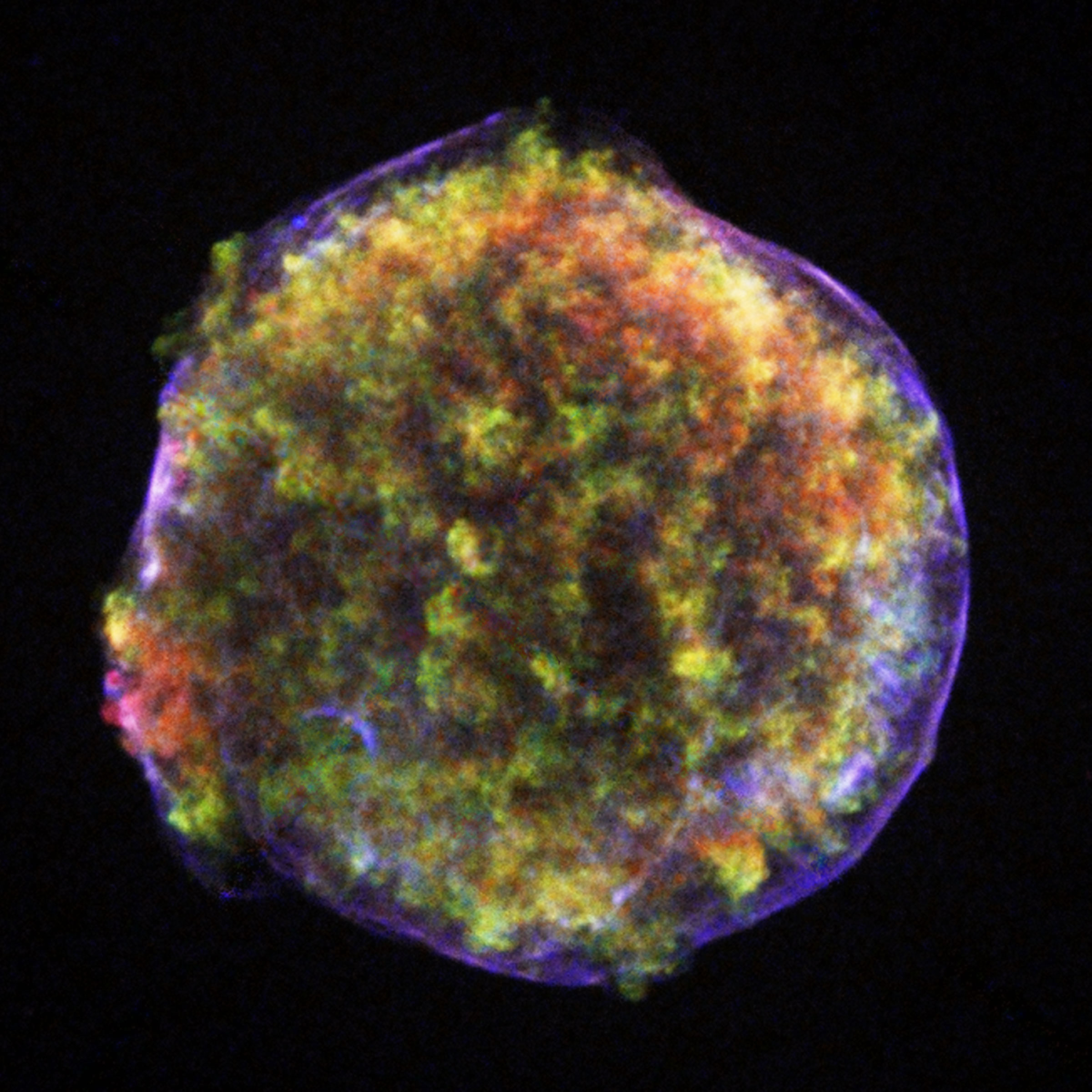 Tycho's Supernova Remnant. In 1572, the Danish astronomer Tycho Brahe observed and studied the explosion of a star that became known as Tycho's supernova. More than four centuries later, Chandra's image of the supernova remnant shows an expanding bubble of multimillion degree debris (green and red) inside a more rapidly moving shell of extremely high energy electrons (filamentary blue). As a huge ball of exploding plasma, it was Irving Langmuir who coined the name plasma because of its similarity to blood plasma, and Hannes Alfvén who noted its cellular nature. The filamentary blue outer shell of X-ray emitting high-speed electrons is also a characteristic of plasmas. This is a false-colour x-ray image in which the energy levels (in keV) of the x-rays have been assigned a colours as follows: Red 0.95-1.26 keV, Green 1.63-2.26 keV, Blue 4.1-6.1 keV. All x-rays images must use processed colours since x-rays (as are radio waves, infra-red) are invisible to the human eye. But they are not invisible to suitable equipment, such as x-ray telescopes. The red and green bands highlight the expanding cloud of plasma with temperatures in the millions of degrees.